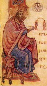 David Anhaght, Definition of Philosophy, ca. 1280, Matenadaran Ms. 1746, Yerevan, Armenia.